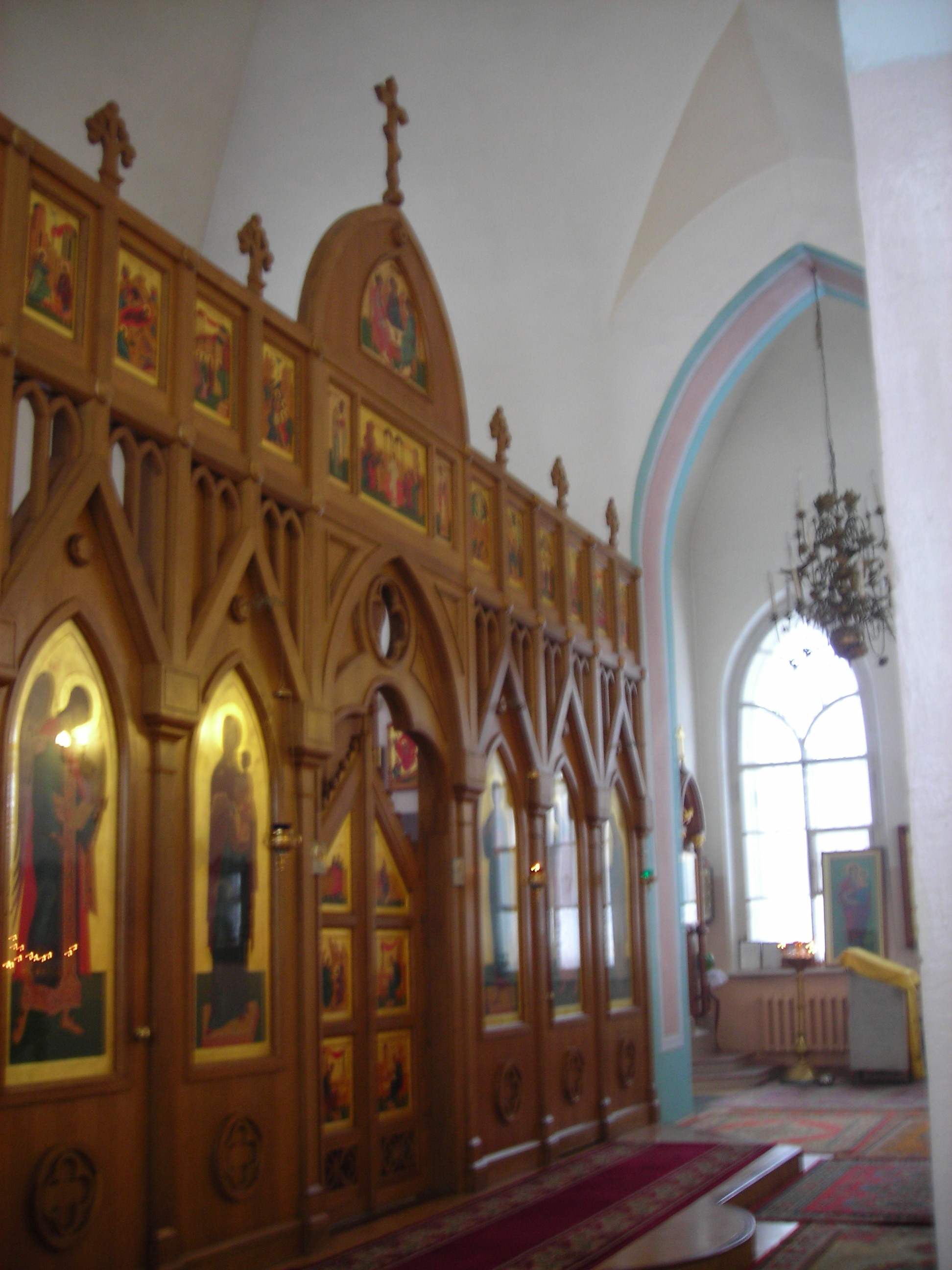 Iconostase of St.Ioann's church (Saint Petersburg)